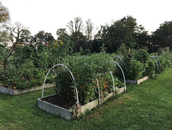 Village life includes a community garden in the field maintained by the residents.